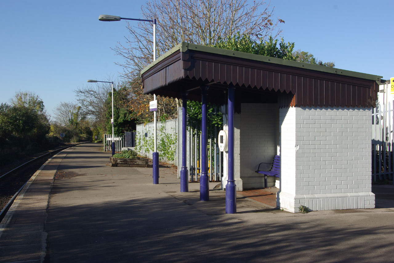 Shirehampton Station